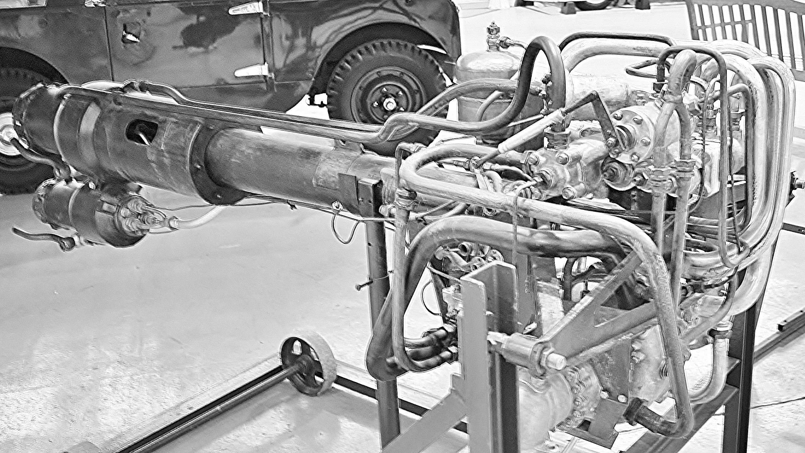 The propulsion unit ( hydrogen peroxide rocket motor ) from a Messerschmidt ME -163 Komet interceptor aircraft , removed during renovation at RAF Cosford in 2006. From Wikipedia (thanks) HWK 109-509 bipropellant hot engine, which added a true fuel of hydrazine hydrate and methanol, designated C-Stoff, that burned with the oxygen-rich exhaust from the T-Stoff(80% concentrated hydrogen peroxide used as hypergolic oxidizer with C-Stoff), used as the oxidizer, for added thrust